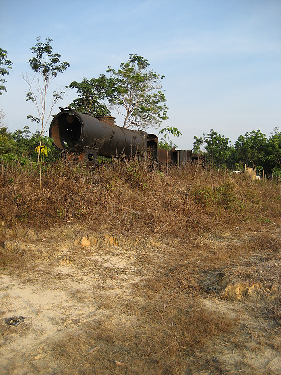 Locomotive Remains along the Pekanbaru Death Railway near Lipit Kain. This site is near the location of POW camp 7 - Taken by Amanda Farrell